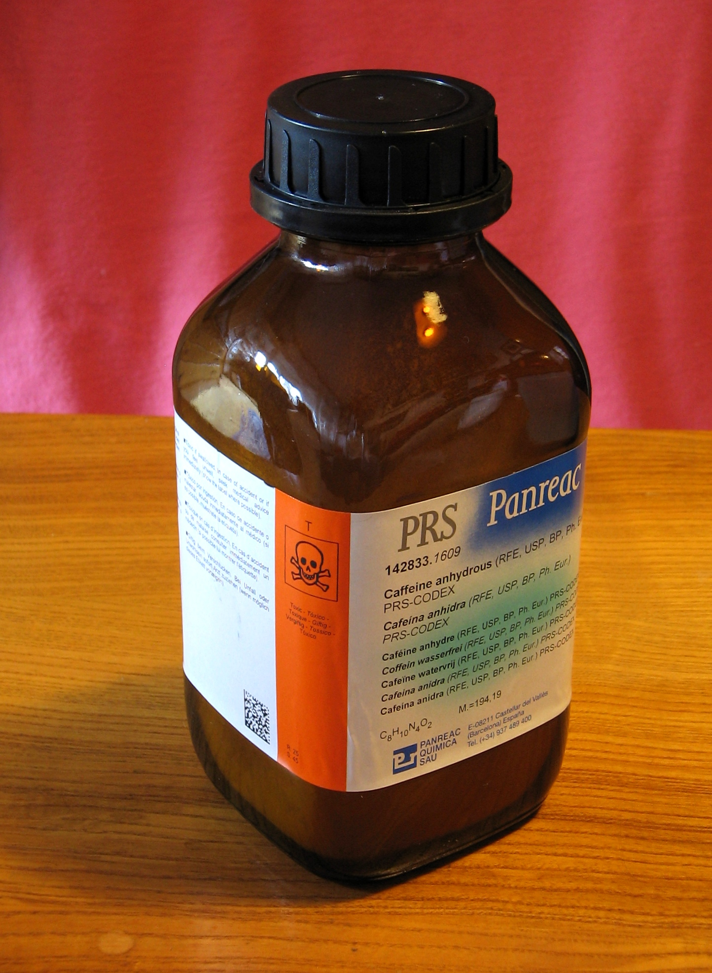 Caffeine